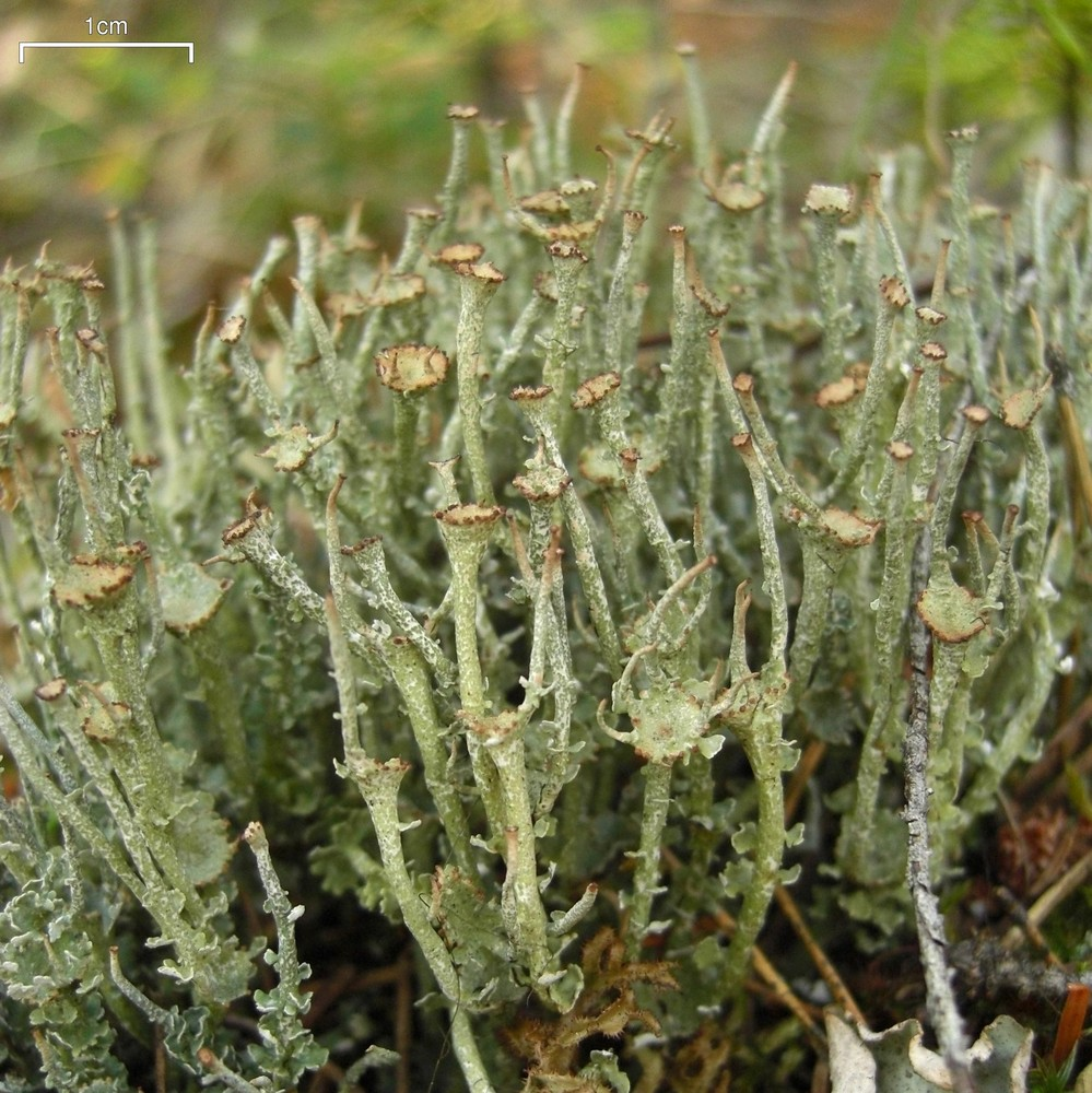 Cladonia ecmocyna Leighton 20090813.23 Battle Mountain, Wells Gray Park, BC This is a bit more squamulose than I usually see.